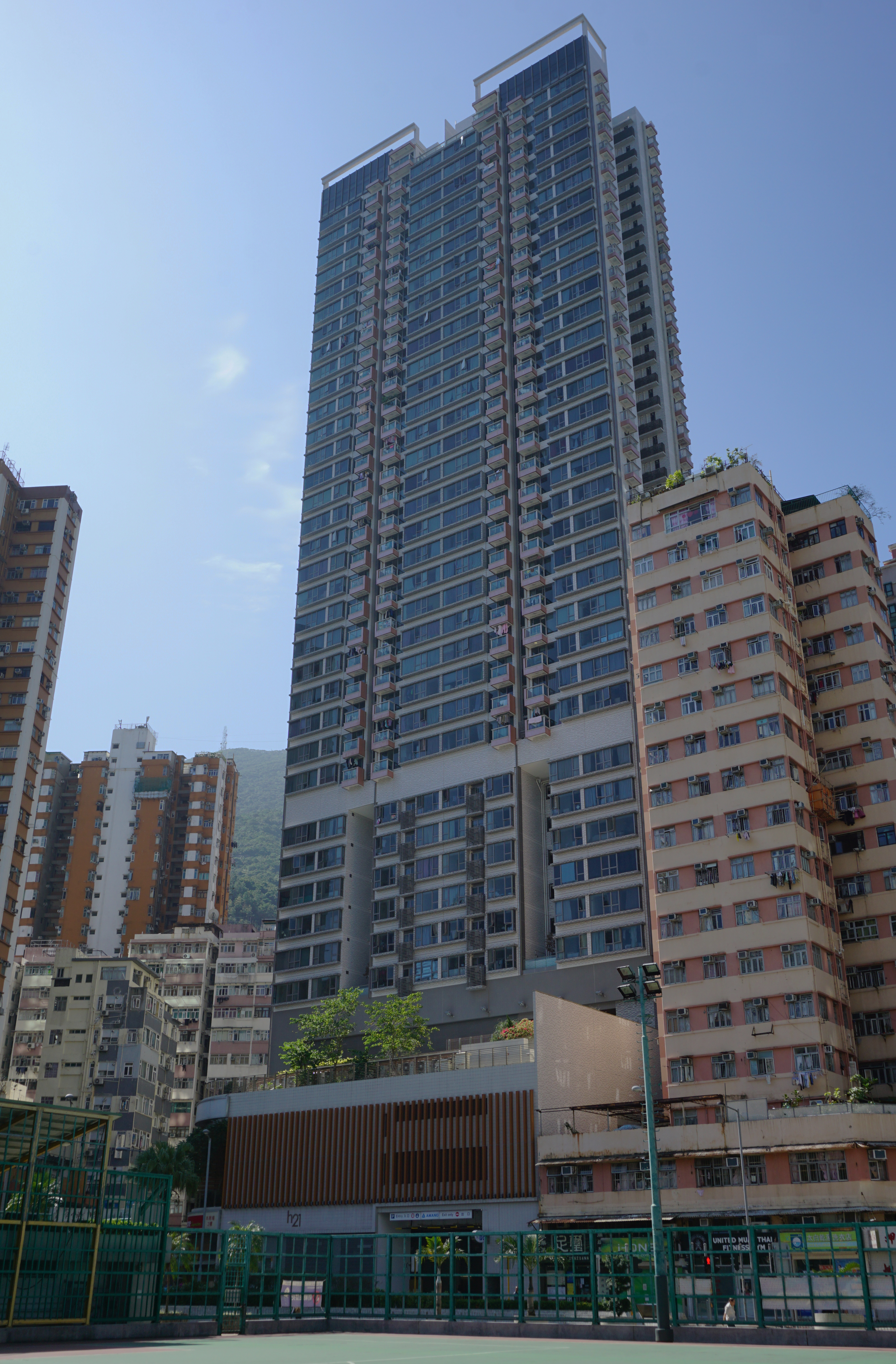 Harmony Place in Shau Kei Wan, Hong Kong.